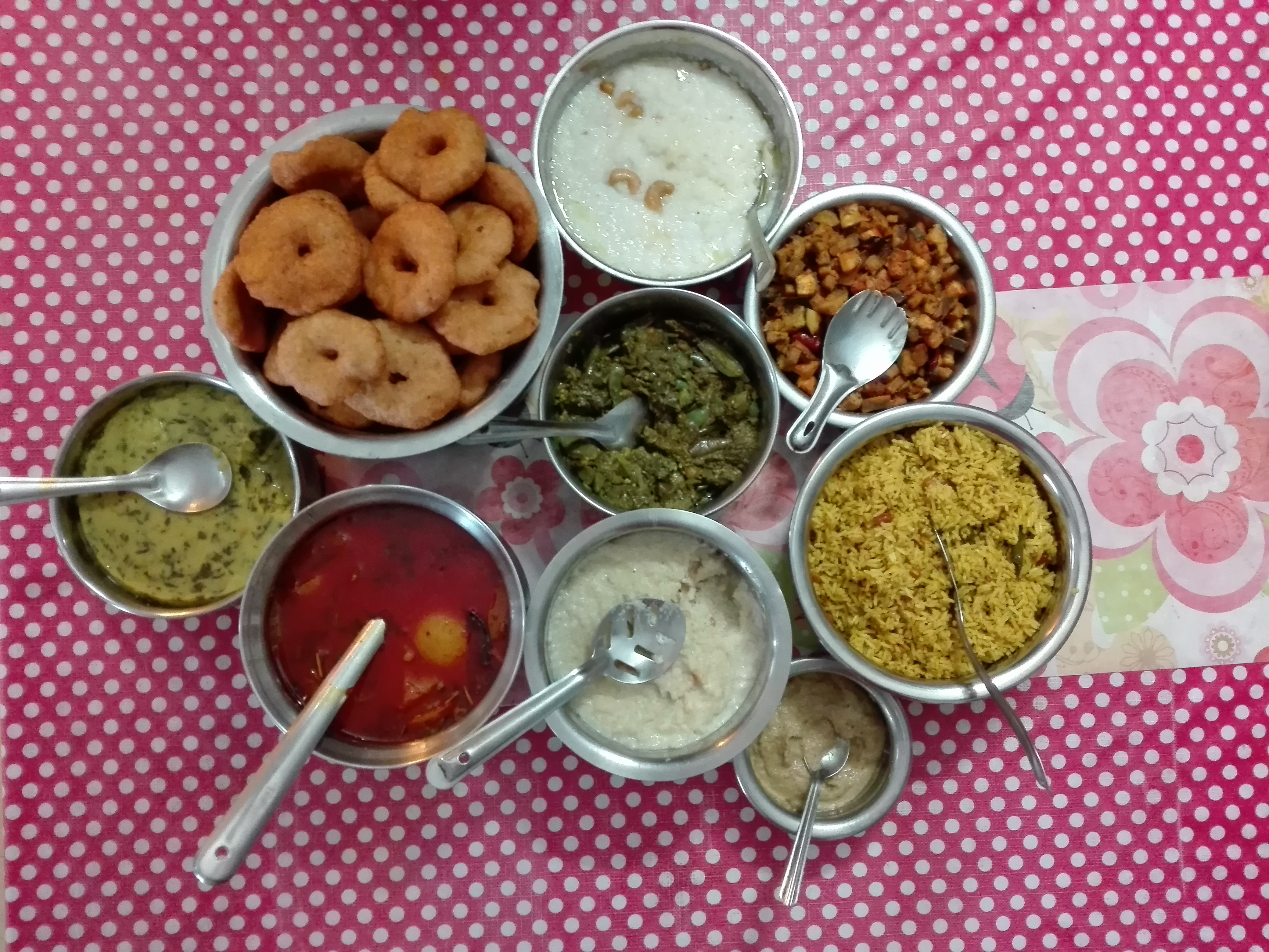 Festival special South Indian dishes, Hyderabad